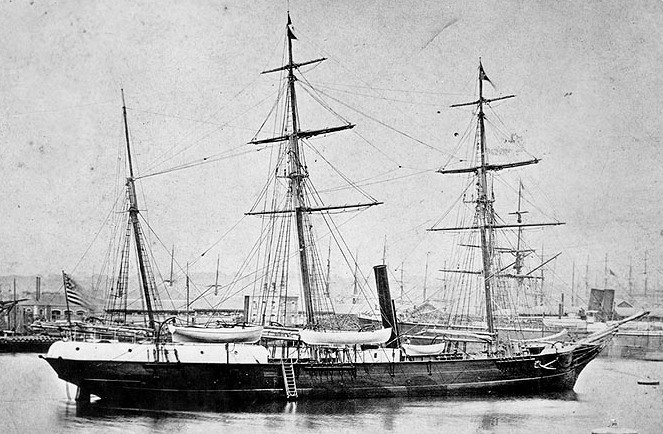 Steam Yacht Jeannette (later USS Jeannette) At Le Havre, France, in 1878, prior to her departure for San Francisco, California. She is flying the U.S. Yacht Ensign. Photograph presented to Rear Admiral Yancy S. Williams on 20 January 1936 by Frank Breen Haggerty, who served at the Mare Island Navy Yard, California, from September 1874 to 30 September 1909. U.S. Naval Historical Center Photograph. Removed caption read: Photo # NH 52199 Steam yacht Jeannette at Le Havre, France, 1878 The S. Y. JEANNETTE. Photo taken in Havre, France, prior to dep[torn] for San Francisco in 1878. Presented to Rear Admiral Y.S.William[torn] U.S.Navy, 20 January 1936 by Mr. Frank Breen Haggerty who served [torn] Island from September 1874 to September 30, 1909. (See legend atta[torn]